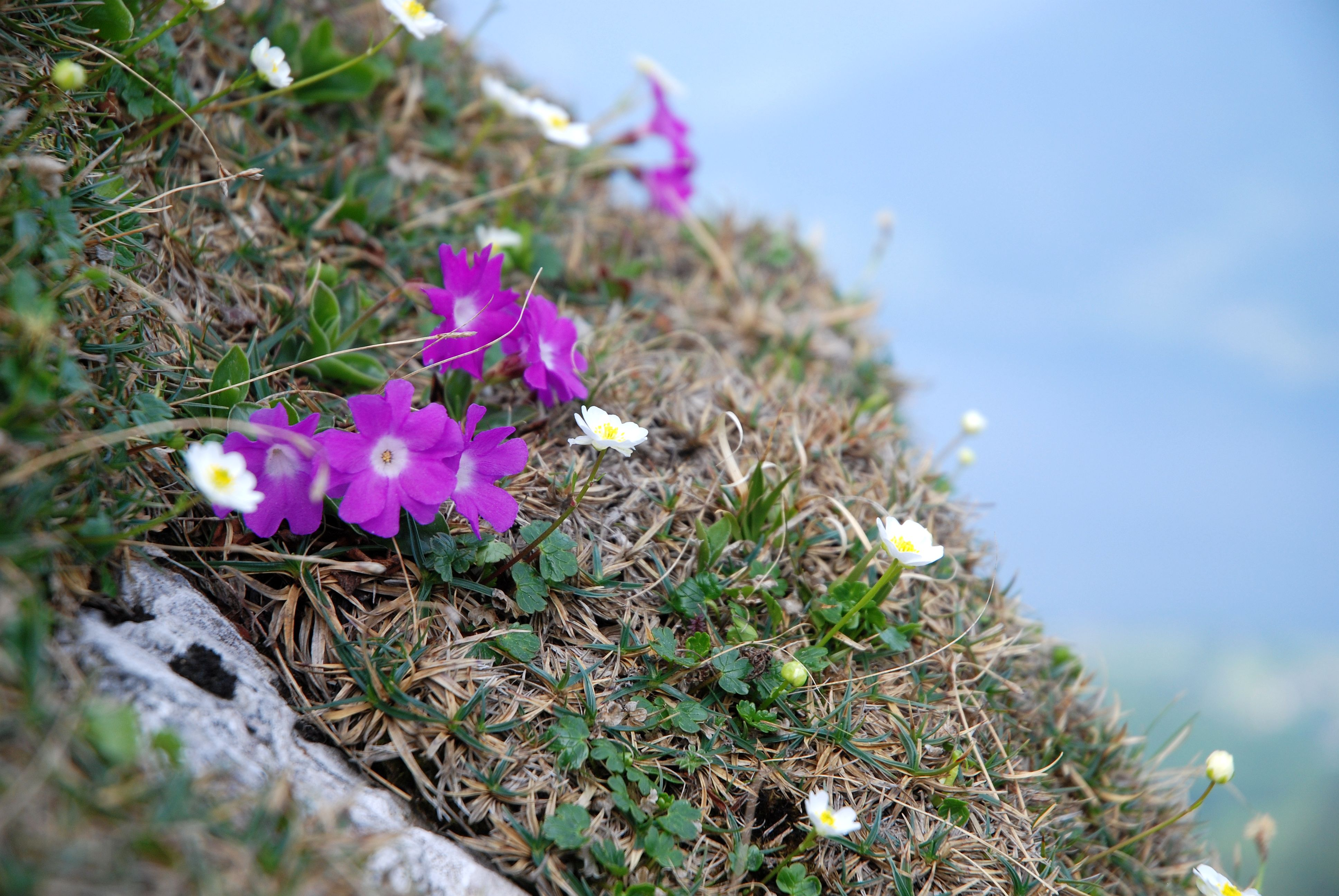 Caricetum firmae with Primula clusiana and Ranunculus alpestris